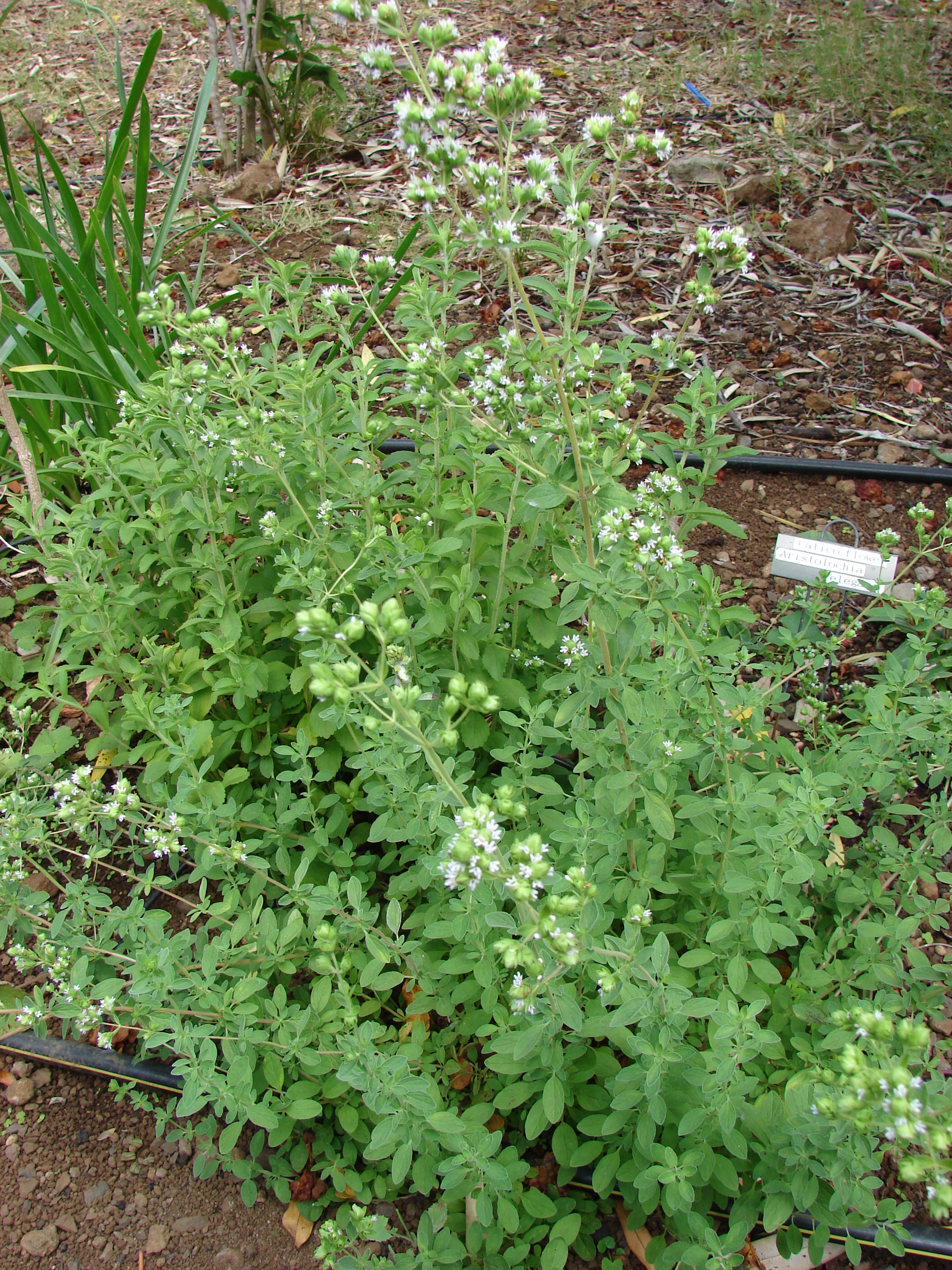 Origanum majorana (flowering habit). Location: Maui, Enchanting Gardens of Kula